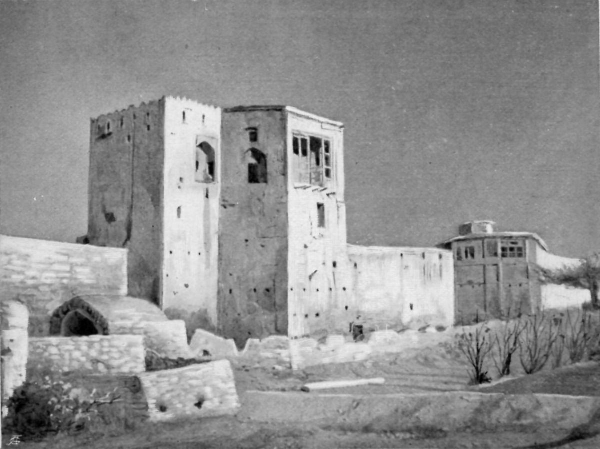 The Citadel, Birjand